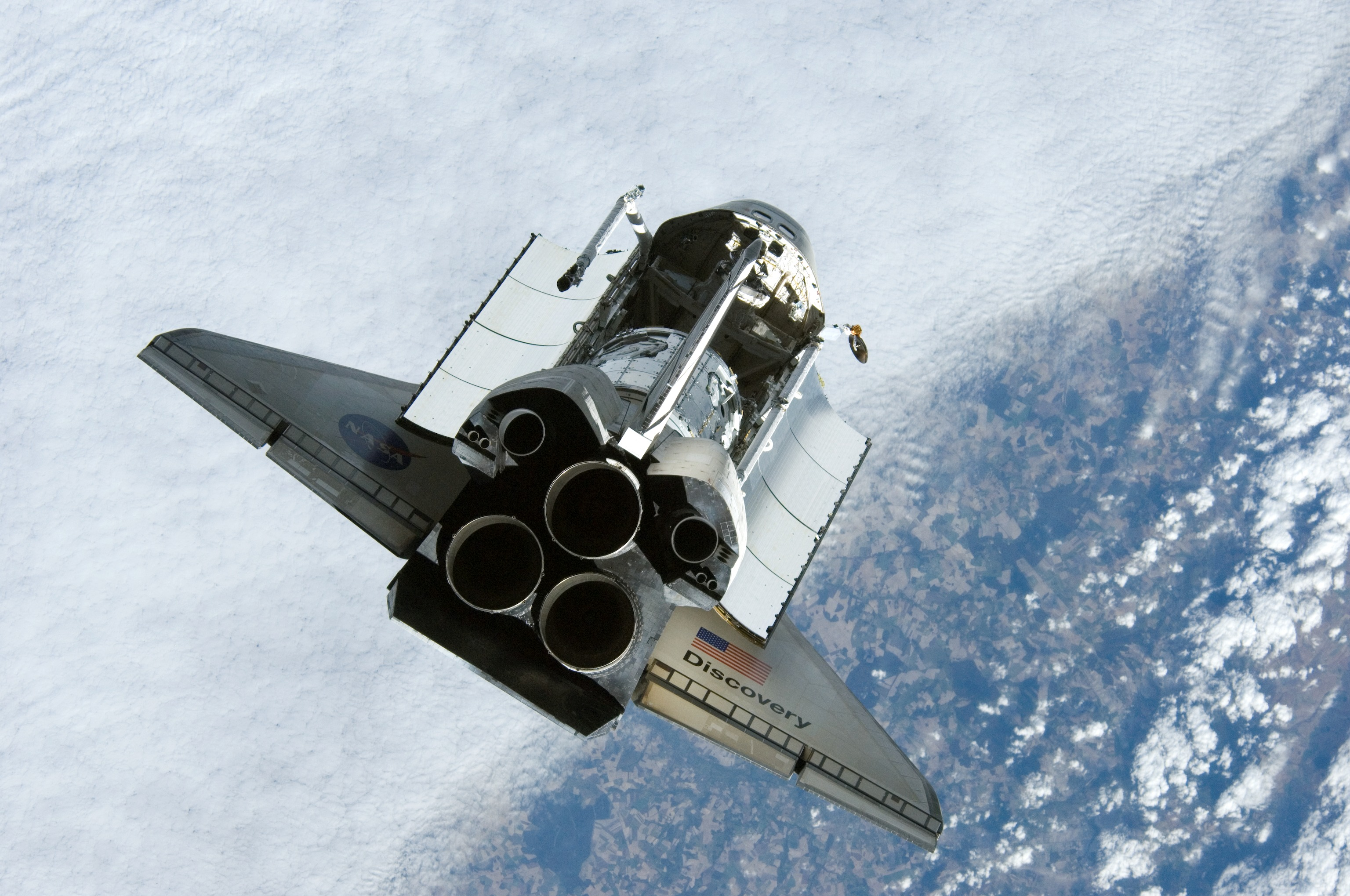 STS-120 backflip maneuver (shuttle Discovery)/manéver backflip raketoplánu Discovery pri misii STS-120